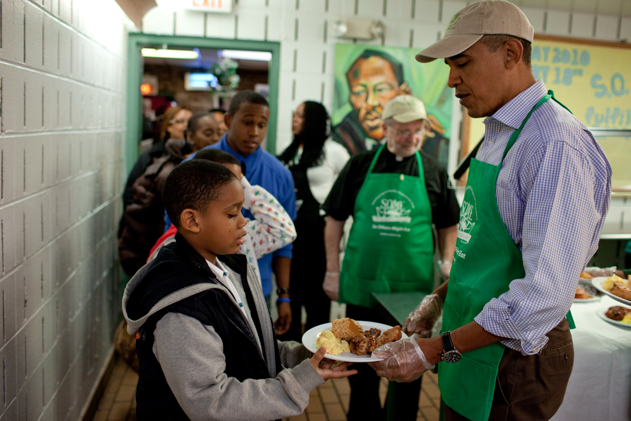 In honor of Martin Luther King Day, President Barack Obama serves lunch in the dining room at So Others Might Eat, a soup kitchen in Washington January 18, 2010.